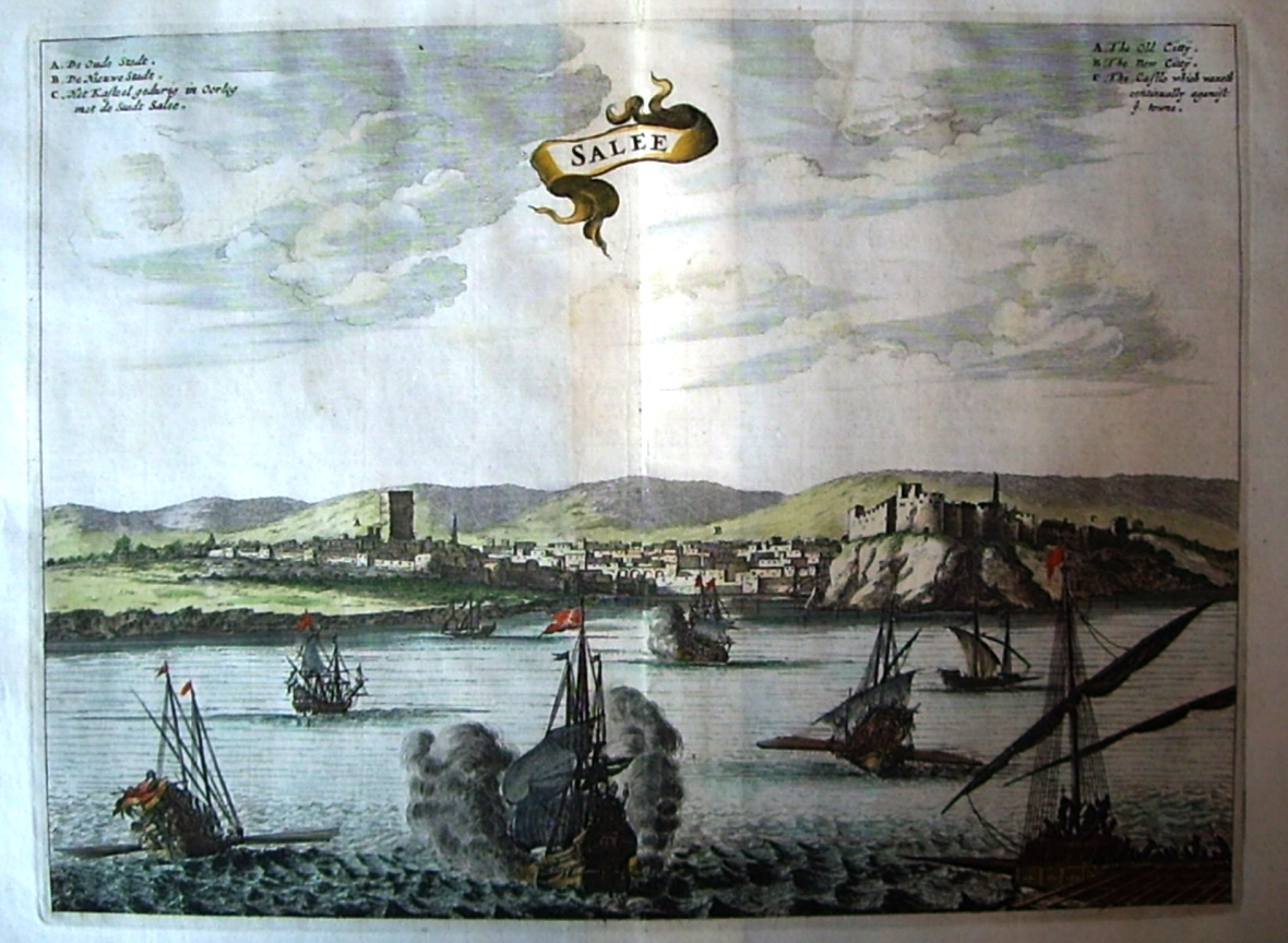 Early copper plate engraving 'Salee' Africa by John Ogilby (1600-1676). Published in London by Johnson in 1670 this picture comes from ' Africa being an Accurate Description of the Regions of Aegypt, Barbary, Lybia and Billedulgerid.